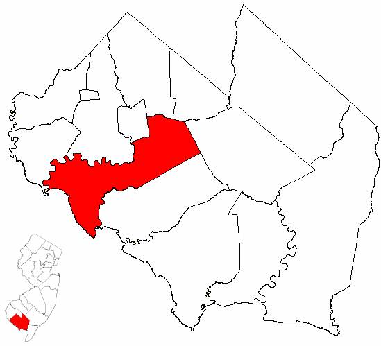 Map of Cumberland County highlighting Fairfield Township